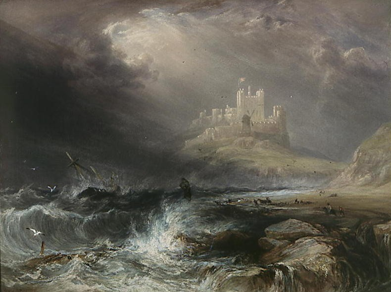 Bamburgh Castle - Northumberland